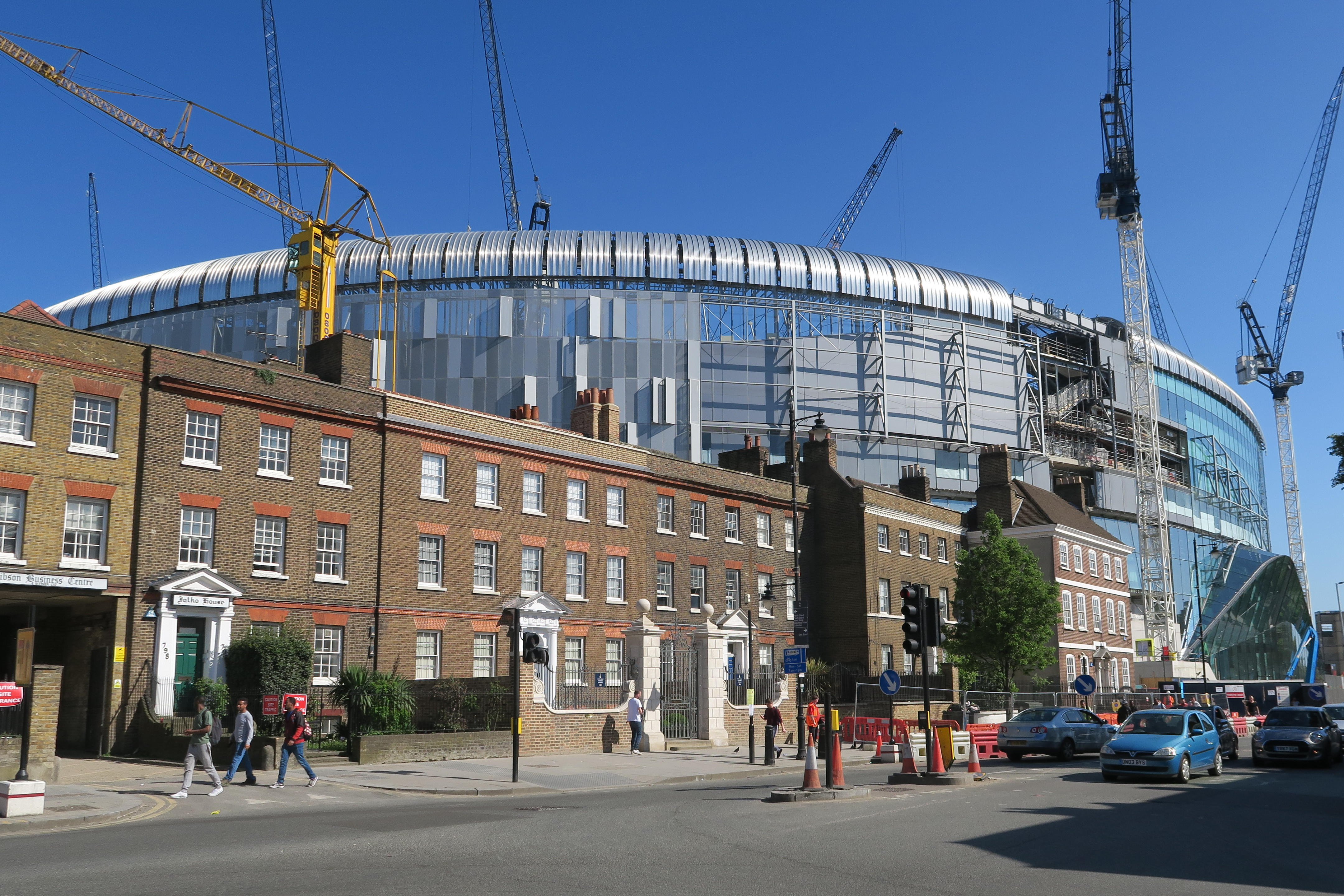 Construction of Tottenham Hotspur Stadium in May 2018 - view from northeast on High Road